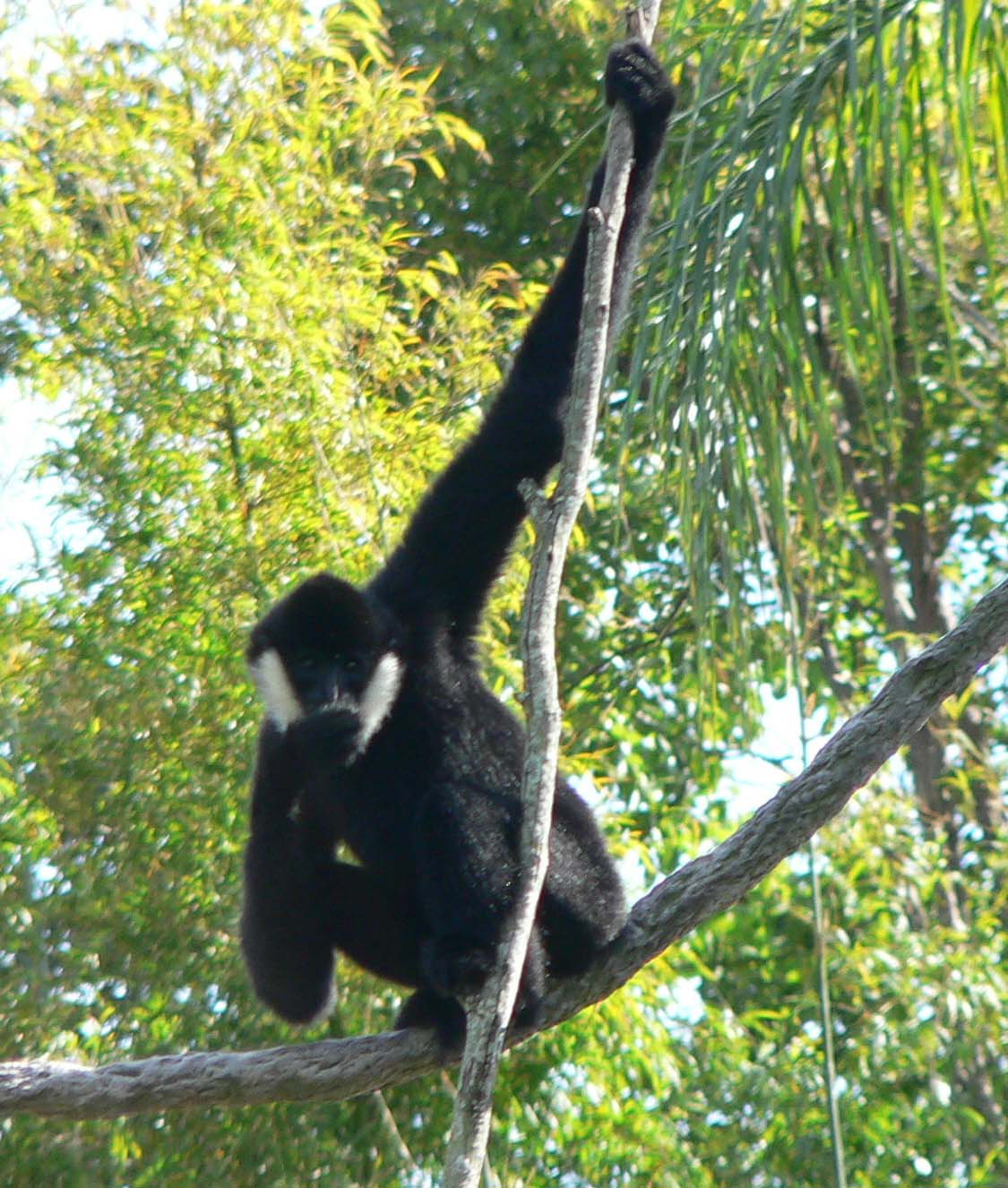 Male White-cheeked Crested Gibbon in Disney's Animal Kingdom.